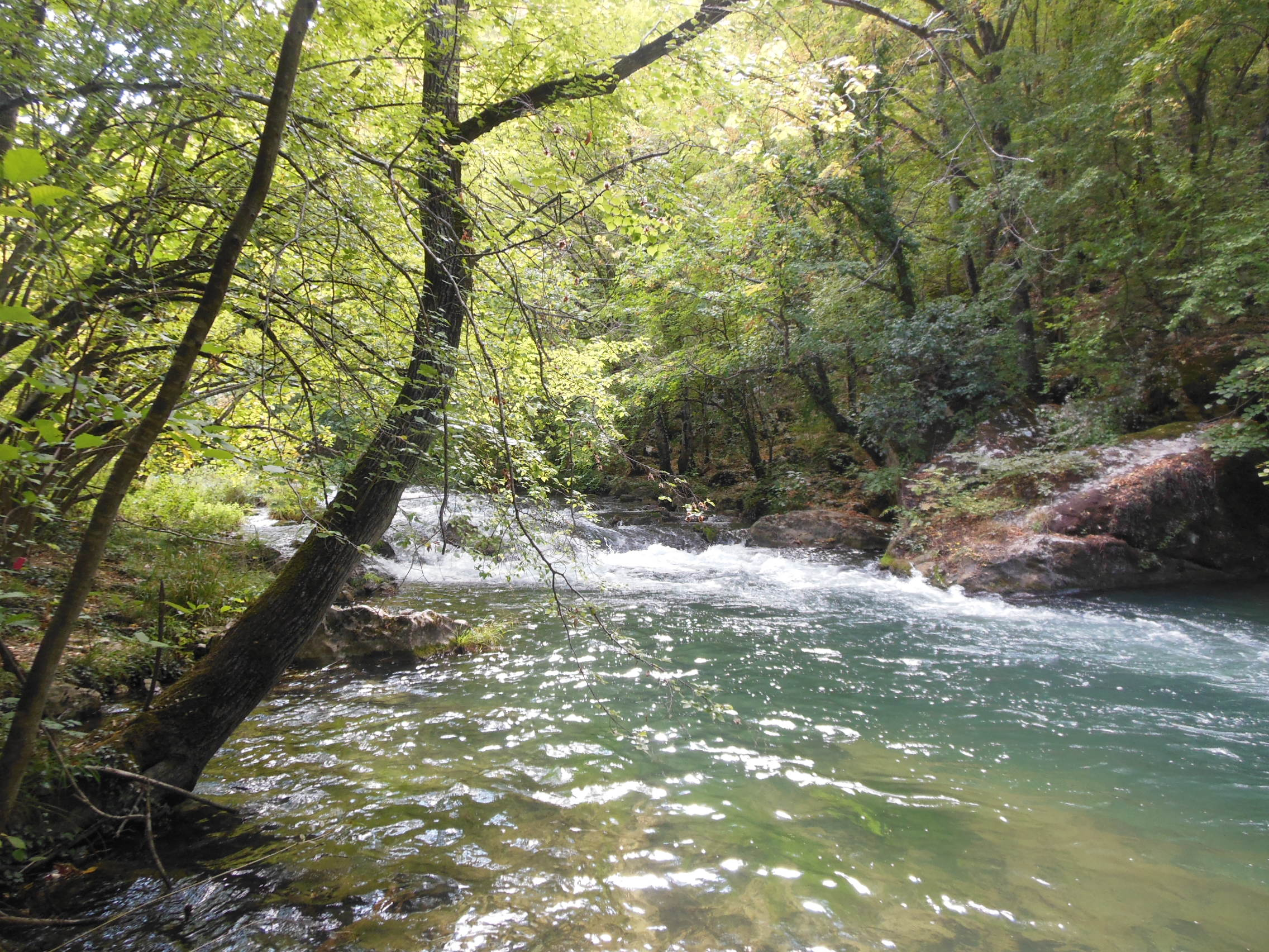 River Chornaya in the Chernorechenskij canyon. Crimea.